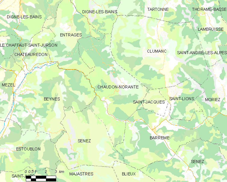 Map commune FR insee code 04055.png Légende